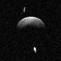 Observing a close pass of asteroid 153591 (2001 SN263) on February 11, 2008, astronomers discovered that it was a triple system. This image from the Arecibo radio telescope shows all three components. The three are rather similar in size: 2, 1, and 0.4 kilometers in diameter.